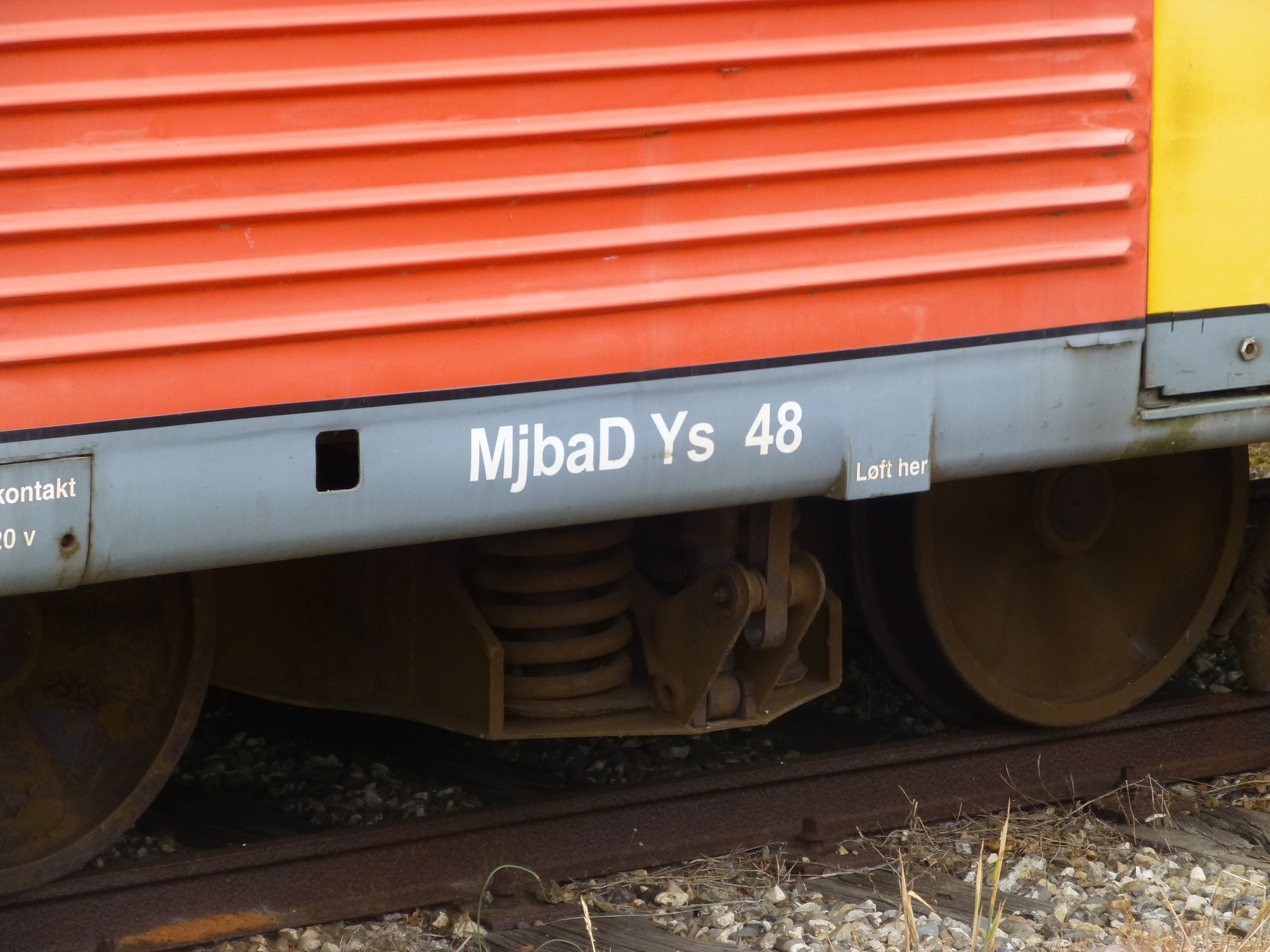 Diesel multiple unit known as Y-tog at Lemvig Station in Denmark. Litra of MJbaD YS 48